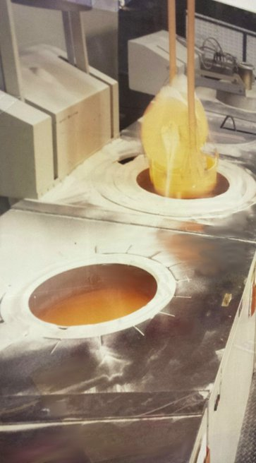 Fluidised bed heat treatment line courtesy of Beta Heat Treatment Ltd, UK